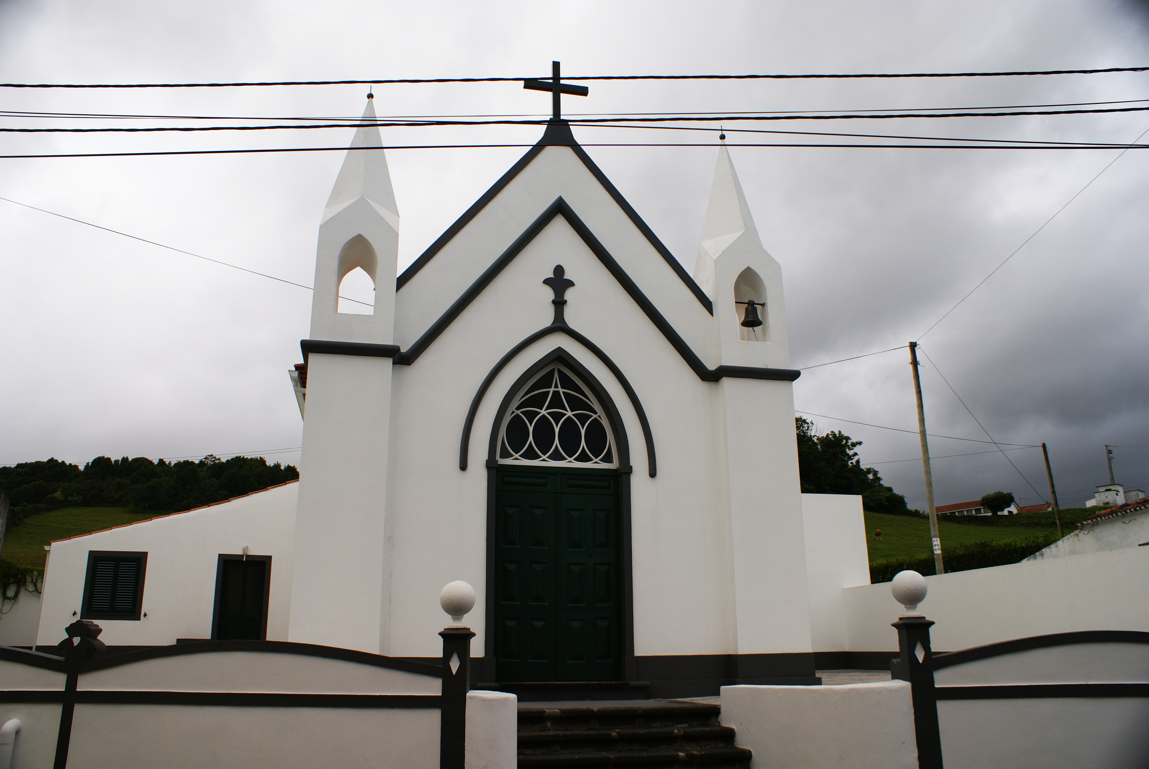 Chapel of Santo Amaro, Conceição, Horta, Faial (Azores), Portugal